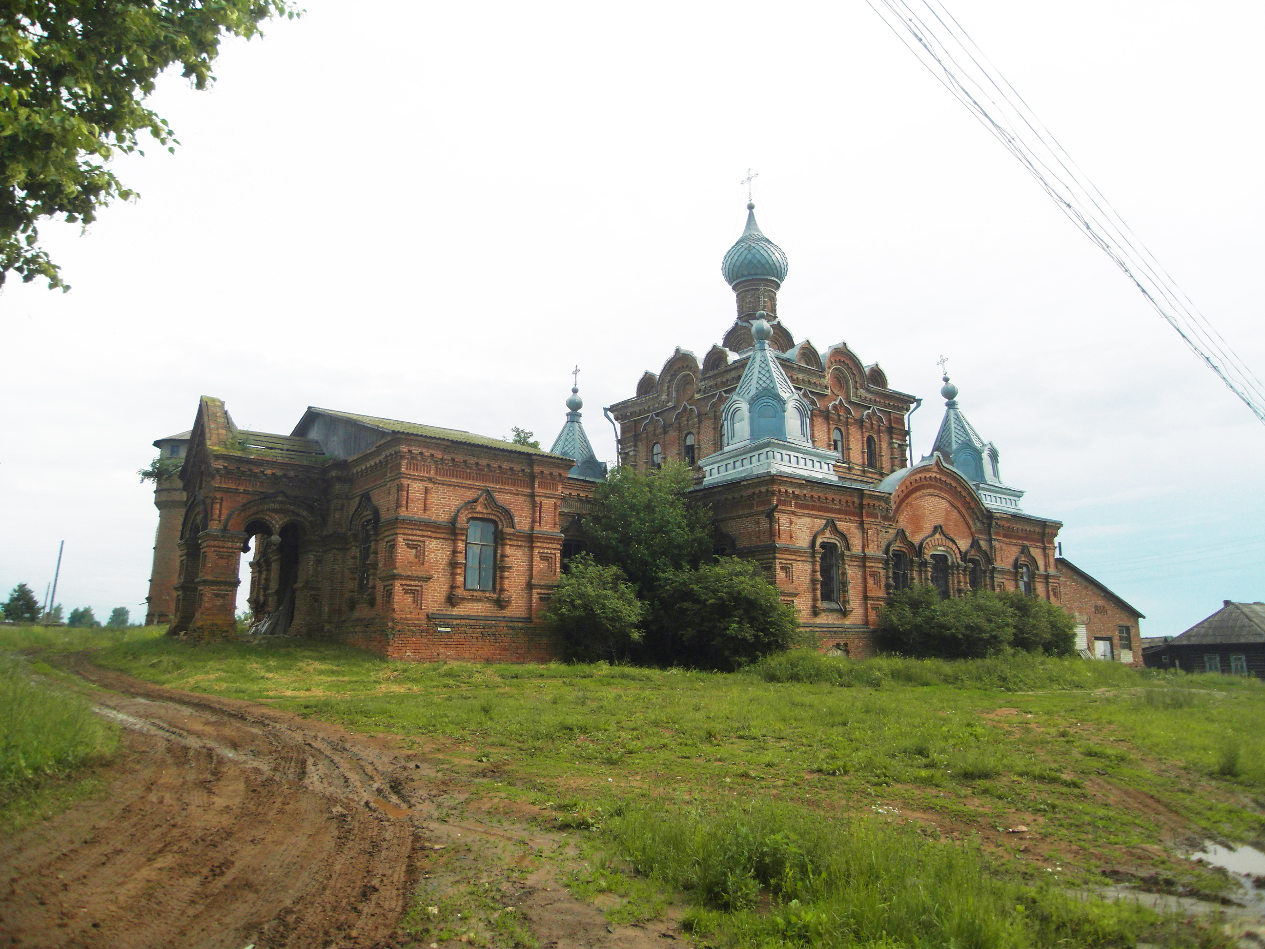 The Church of St. John Chrysostom in Nyr, Kirov region, Russia